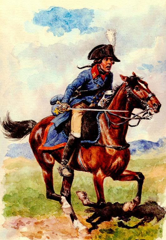 Cavalerie noble